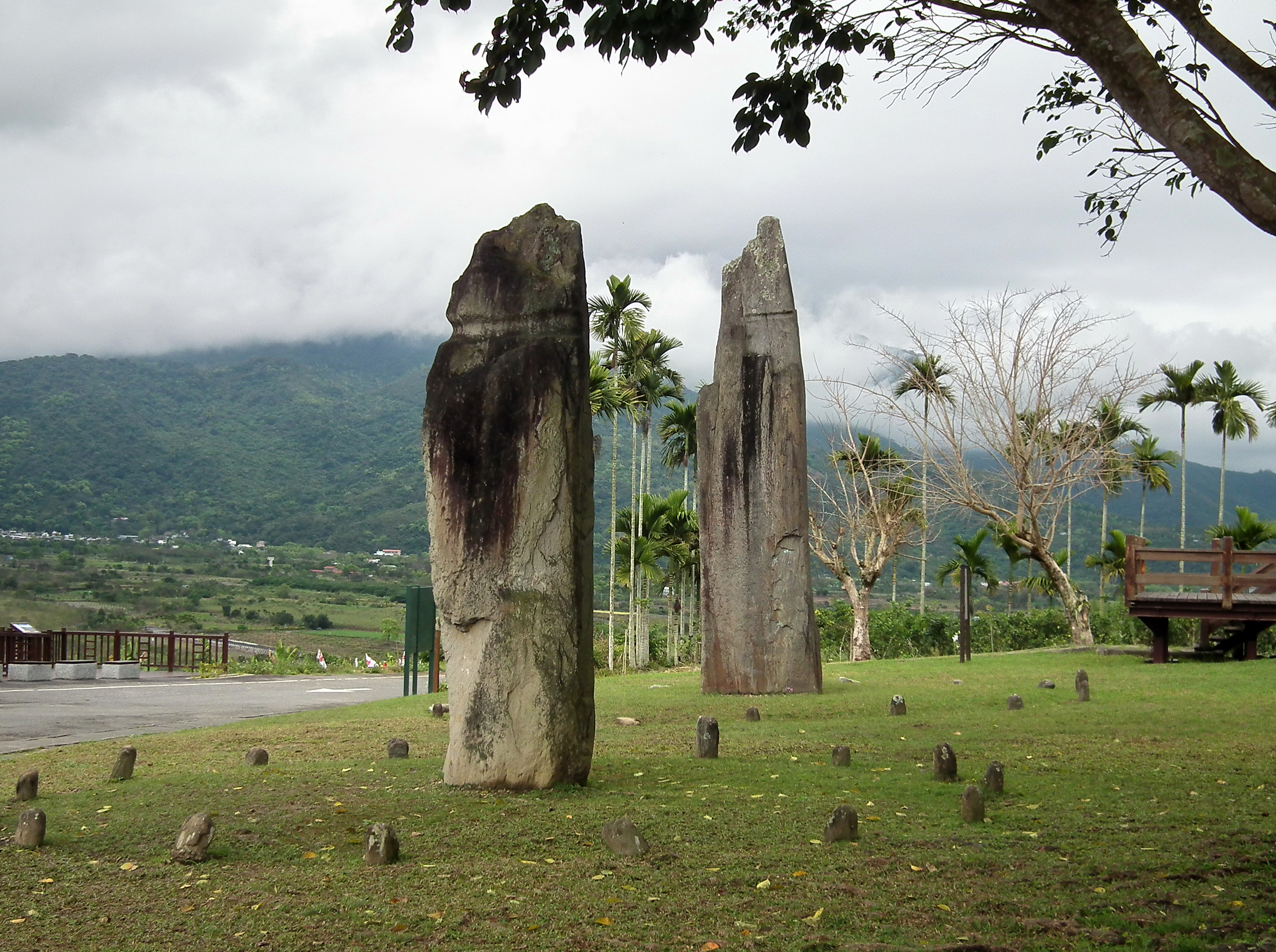 Saoba Monoliths 掃叭石柱